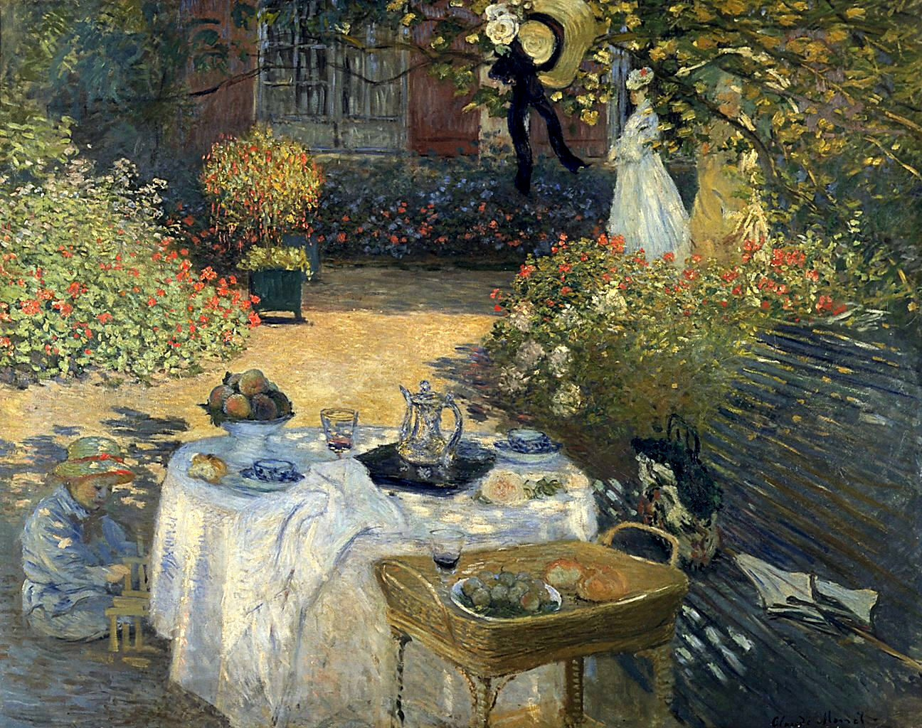 The luncheon